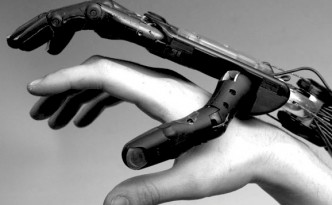 A black and white image showing a Shadow Robot Company Air Muscle powered Robot hand with a Human hand. Other information